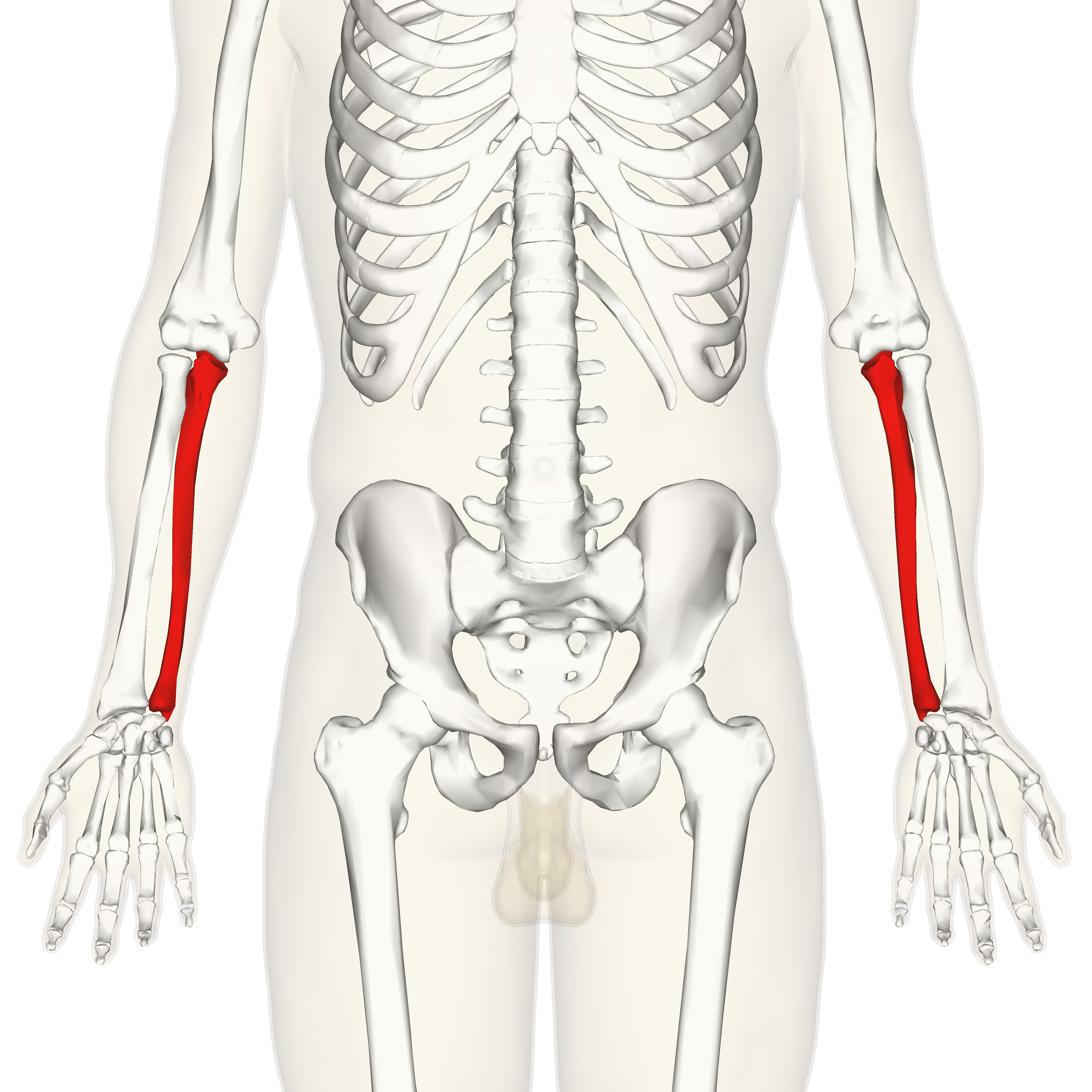 Ulna.